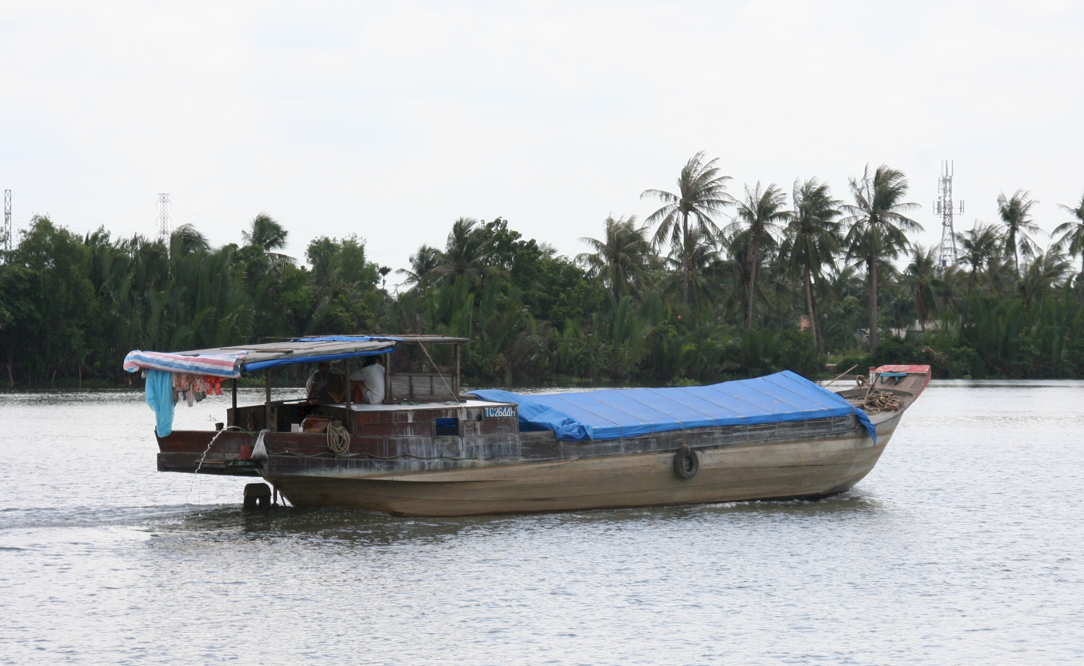 A Vietnamese river boat. Taken near Binh Thanh District, Ho Chi Minh City, Vietnam, Jun 2005. Photographer Roderick Divilbiss